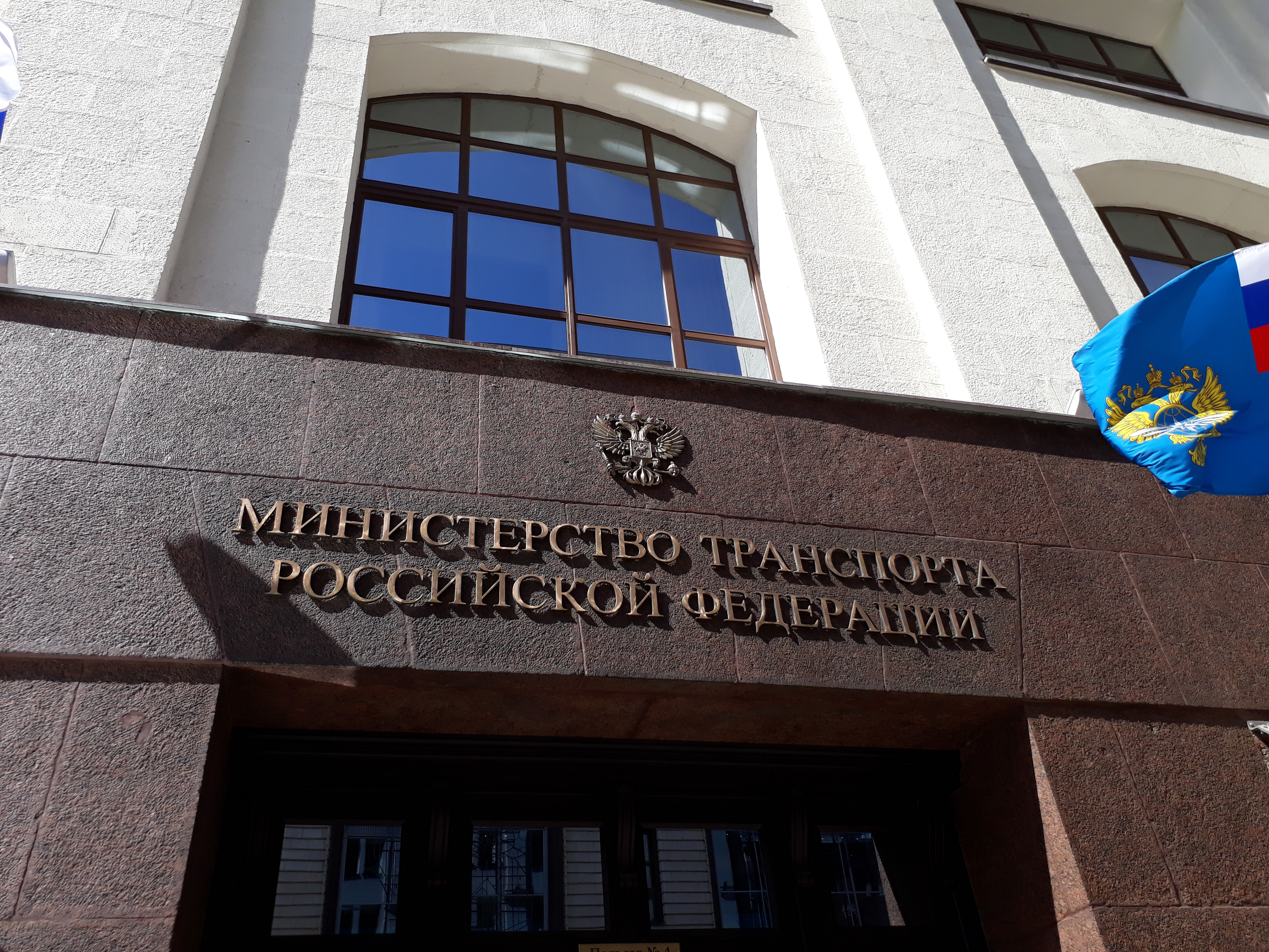 Фасад здания Министерства транспорта РФ в Москве. 5 мая 2017г.